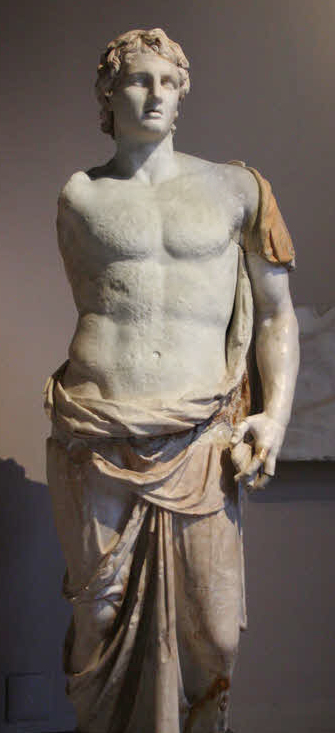 3rd century BC statue of Alexander the Great, signed "Menas". Istanbul Archaeology Museum. Minor photoshop work to remove or reduce blemishes, a crack, etc.